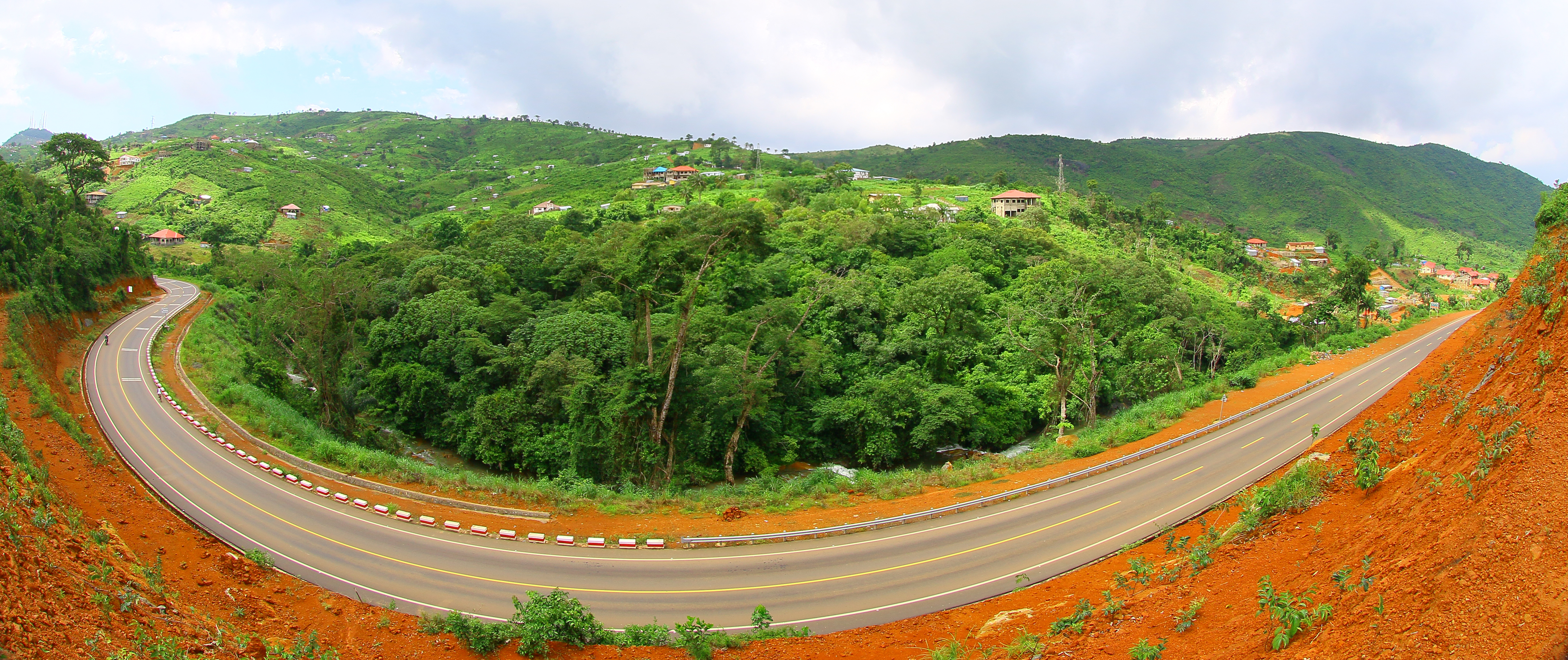 new road in Regent, Sierra Leone This is an image with the theme "Africa on the Move or Transport" from: Sierra Leone